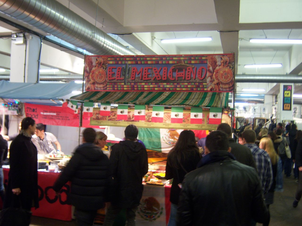 'Mexicano' food stand at Boiler House Food Hall